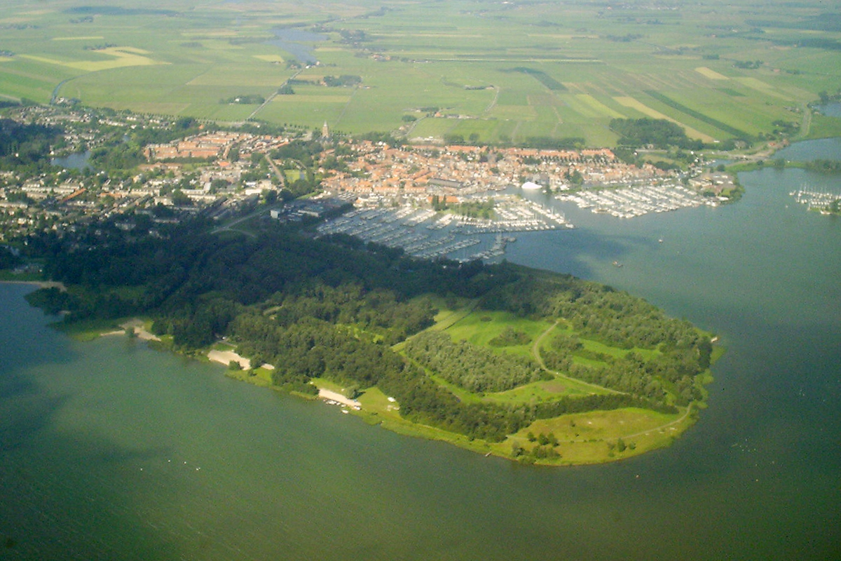 The port of Monnickendam, Holland